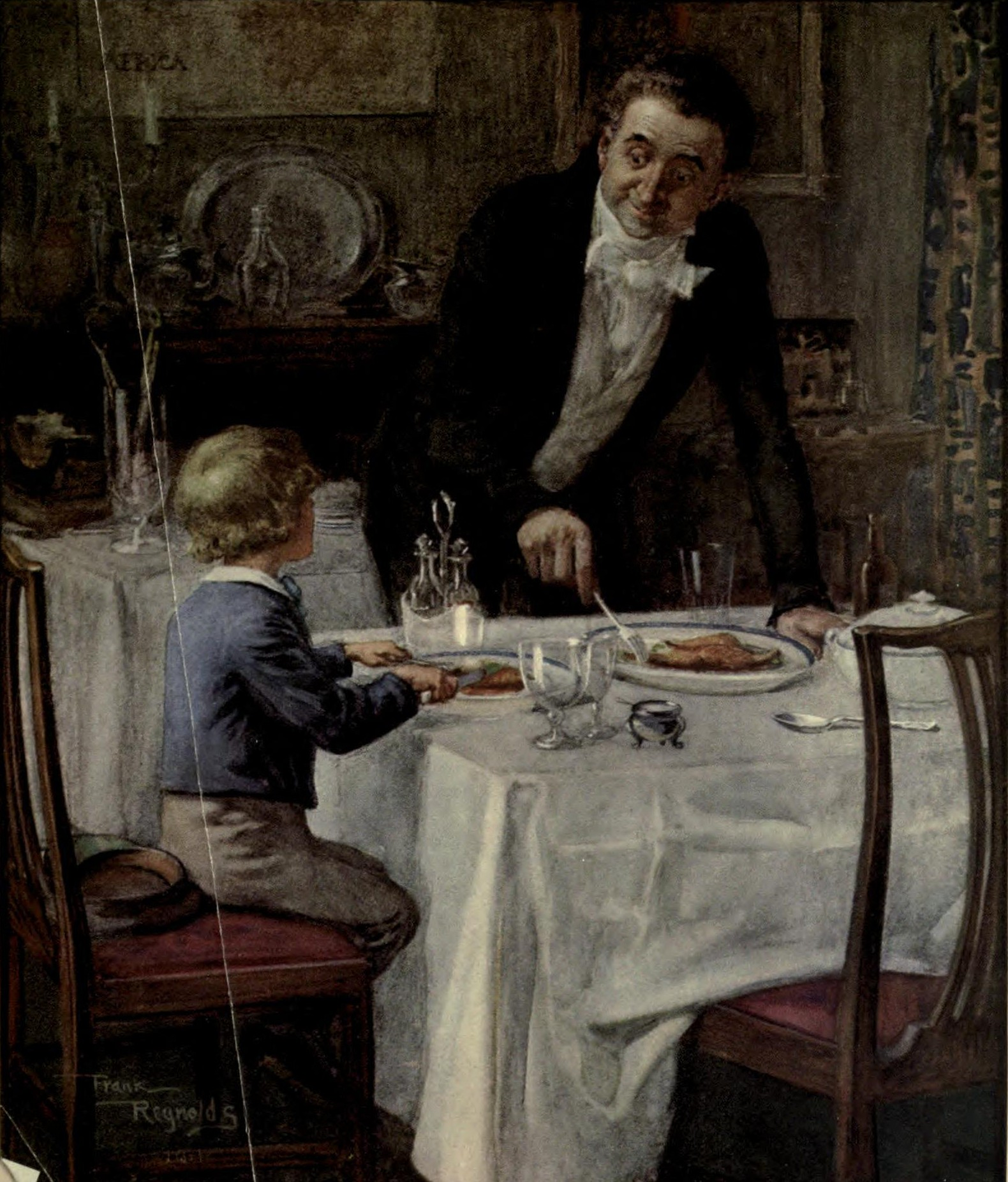 A friendly waiter, a character in Charles Dickens' David Copperfield.